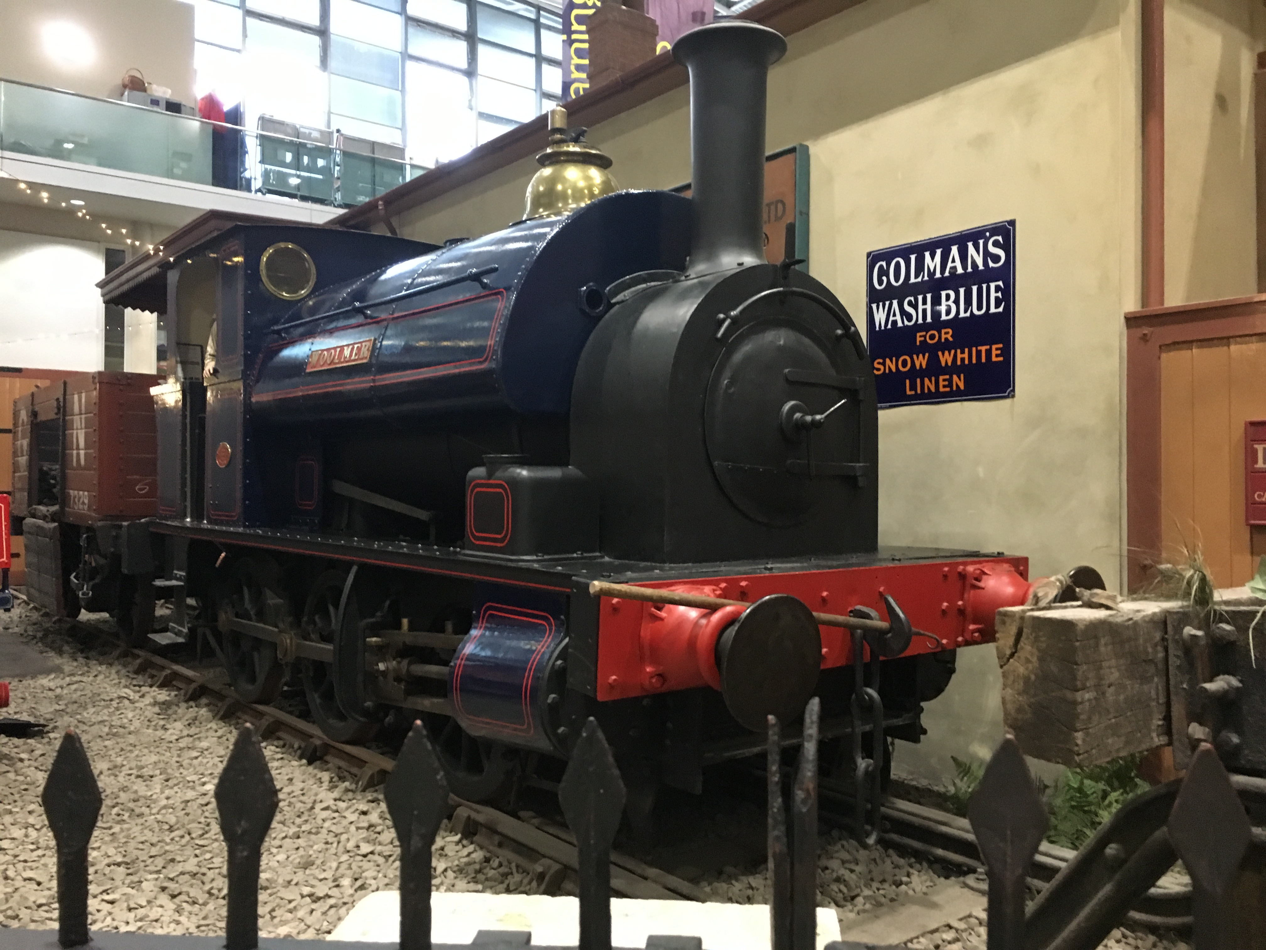 A preserved Avonside 0-6-0 saddle tank at Milestones Museum in Basingstoke.